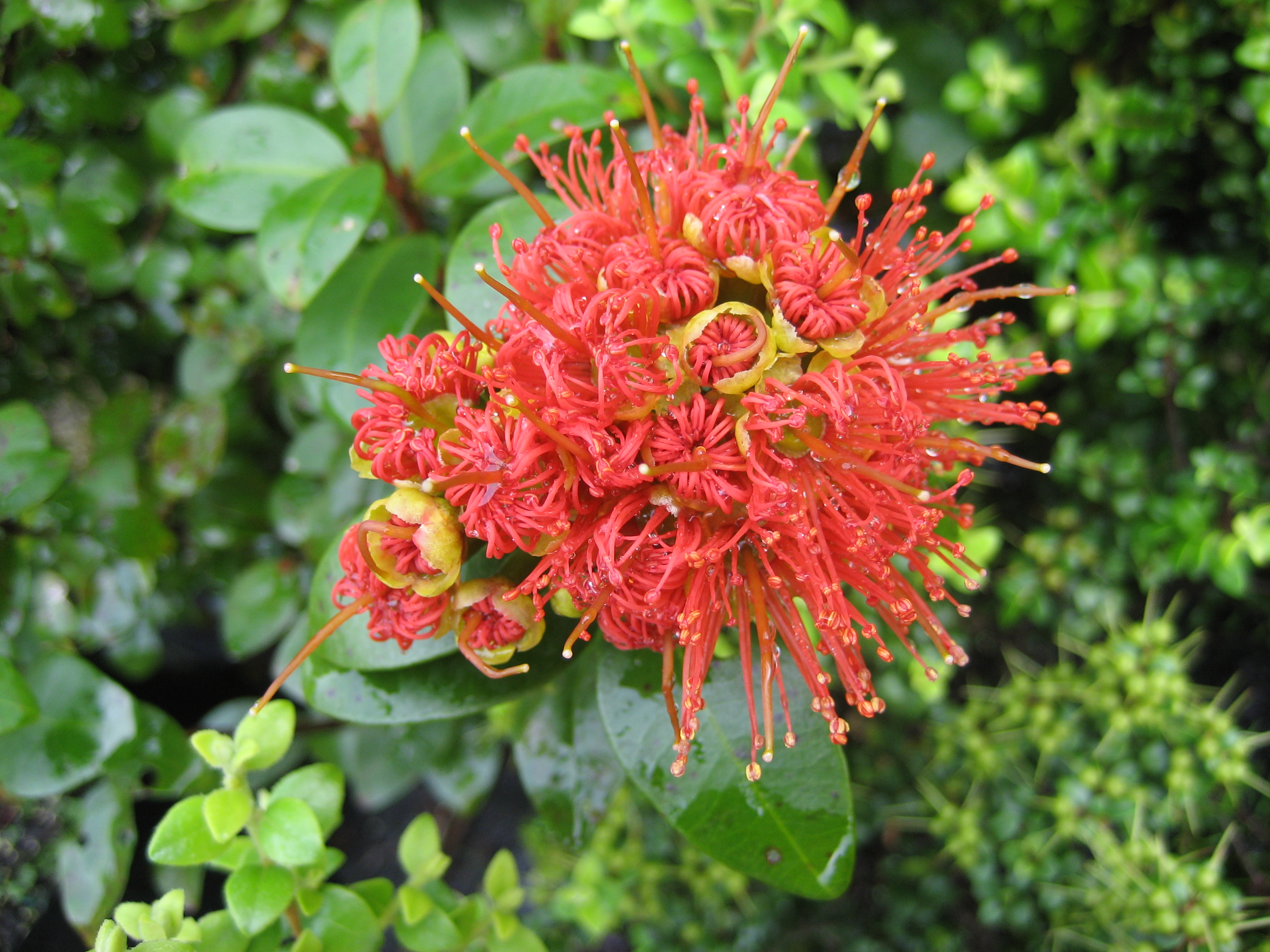 Flower of Metrosideros fulgens, (Climbing scarlet rātā or Akakura) Myrtaceae, endemic to New Zealand.